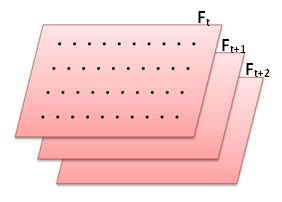 Dense sampling